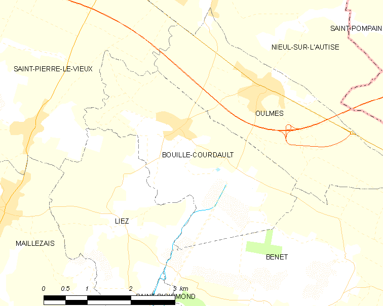 Map of French municipality Bouillé-Courdault